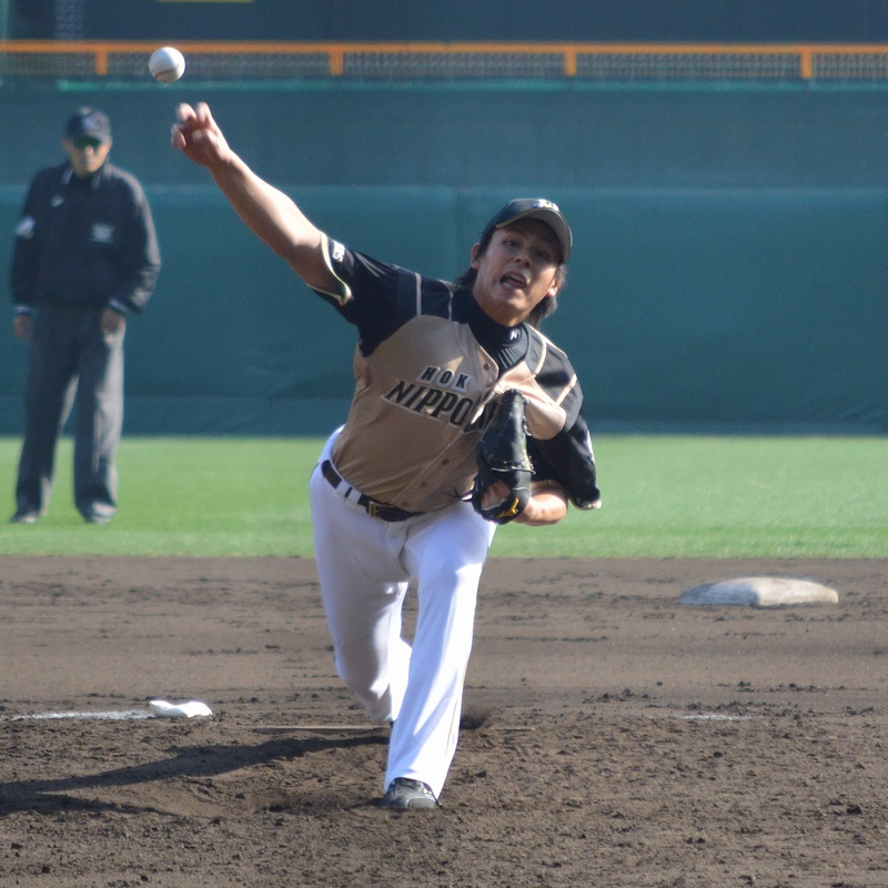 NF-Yutaka-Otsuka20130309